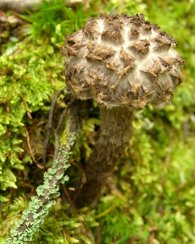 Old Man of the Woods (Strobilomyces floccopus, syn. S. strobilaceus), certainty: positive, Southern Appalachians; Pisgah NF; Spivey Gap.